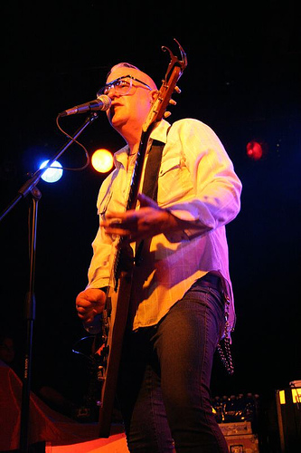 Dave Catching playing with the eagles of death metal live @ the glass house 02.08.06